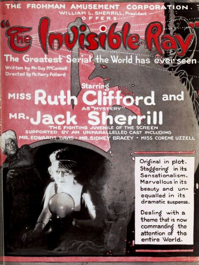 Advertisement for the American science fiction film serial The Invisible Ray (1920) with Corene Uzzell, from the insert after page 82 of the January 17, 1920 Exhibitors Herald.